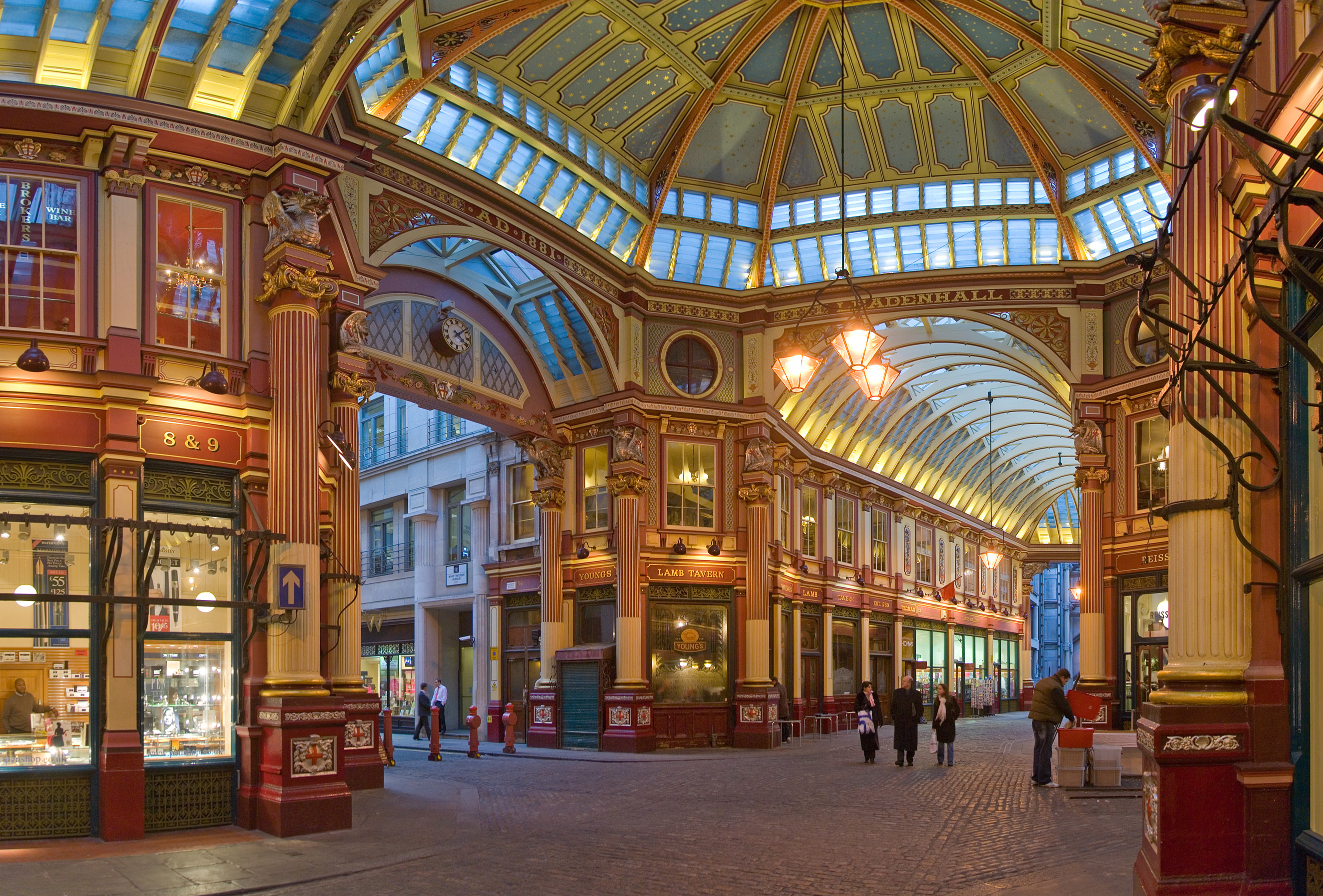 This is a panorama of 3 segments taken with a Canon 5D and 24-105mm f/4L IS.